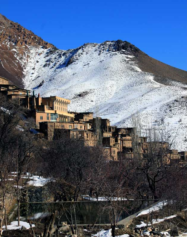 Dizbad Village at Winter-2012